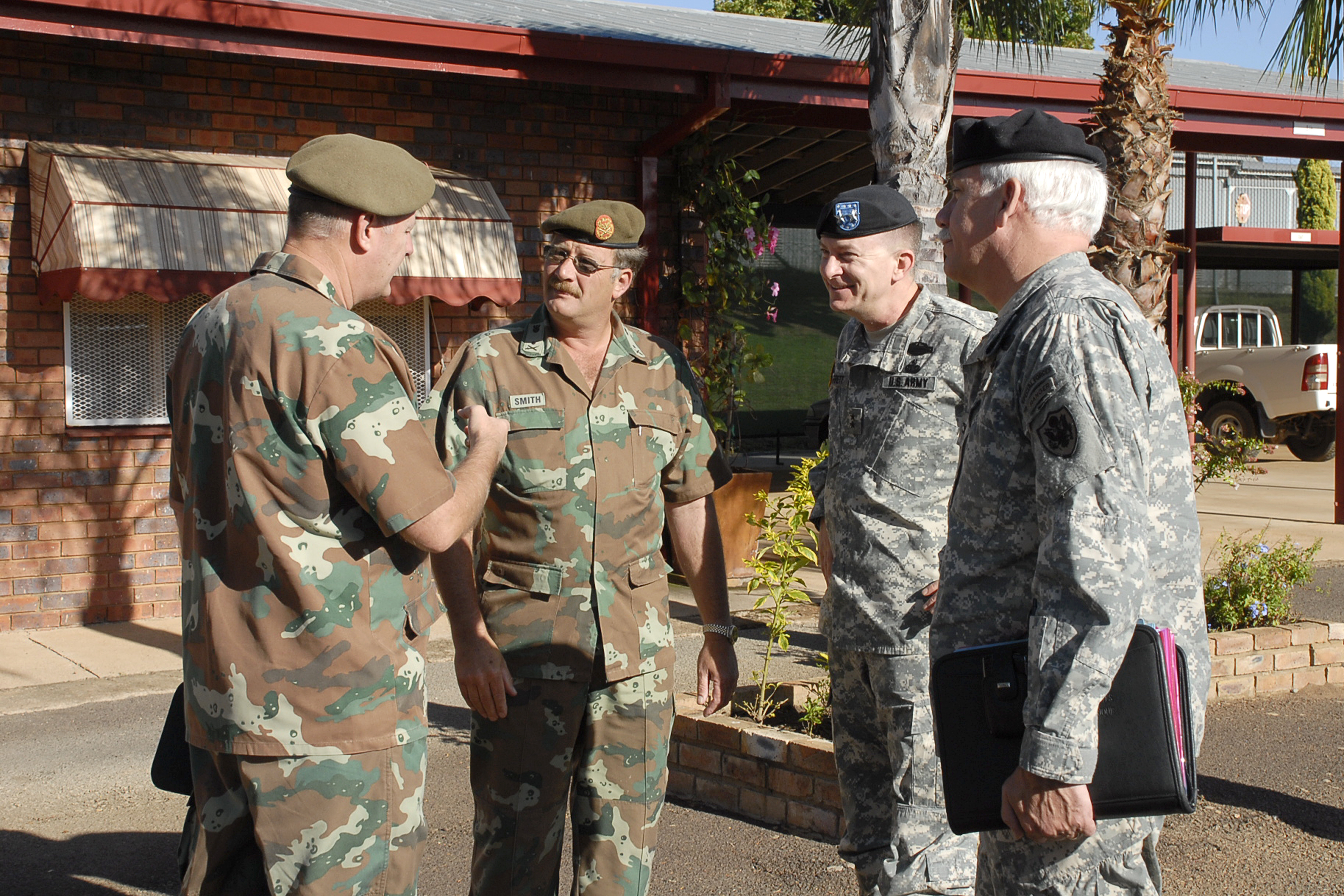 U.S. Army Africa commander meets South African military leaders Brigadier General Chris Gildenhuys (left) and Brigadier General Lawrence Smith talk to General William Garrett By Rick Scavetta, U.S. Army Africa PHOTOS by Capt. Thomas Laney, U.S. Army Africa